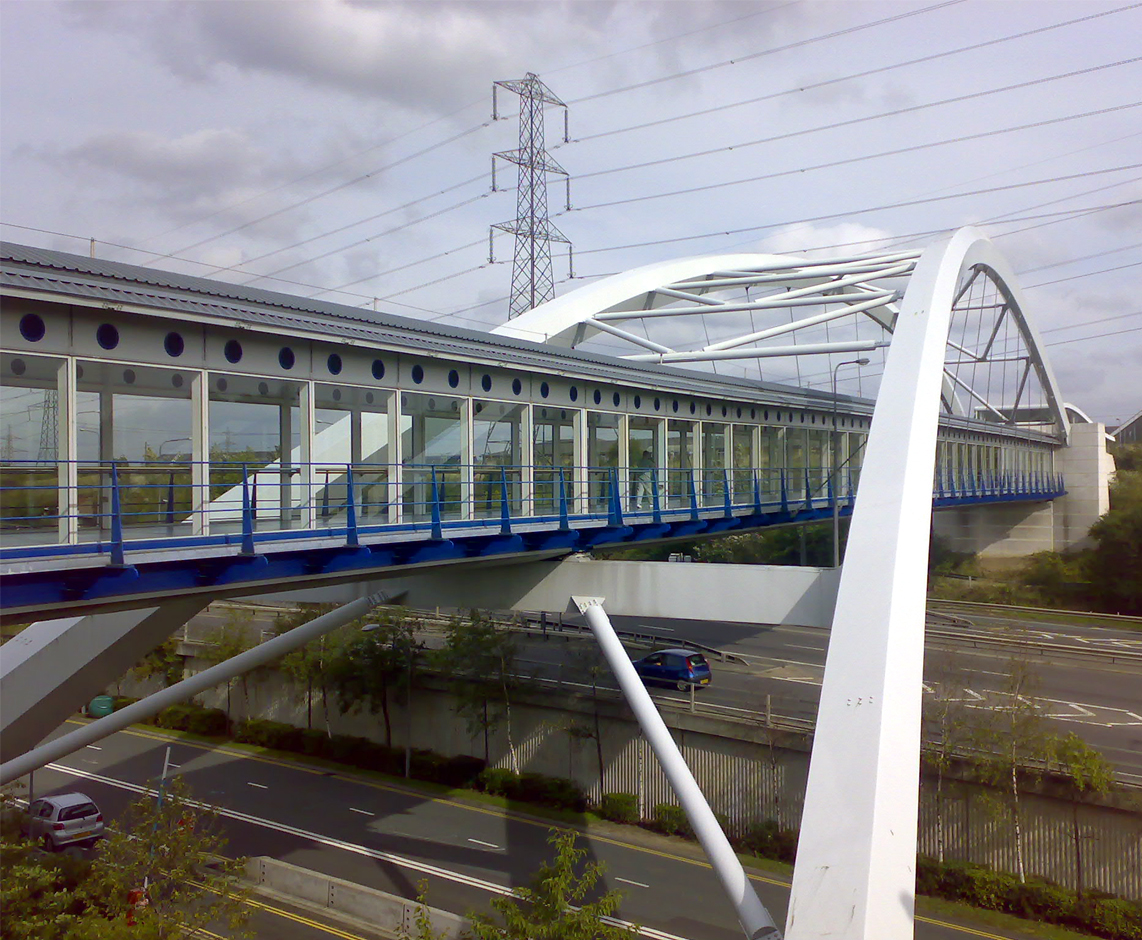 The pedestrian bridge linking Lakeside Shopping Centre with Chafford Hundred railway station. (Taken by McDRye on September 27th 2006) Summary The pedestrian bridge linking Lakeside Shopping Centre with Chafford Hundred railway station. (Taken by McDRye on September 27th 2006)